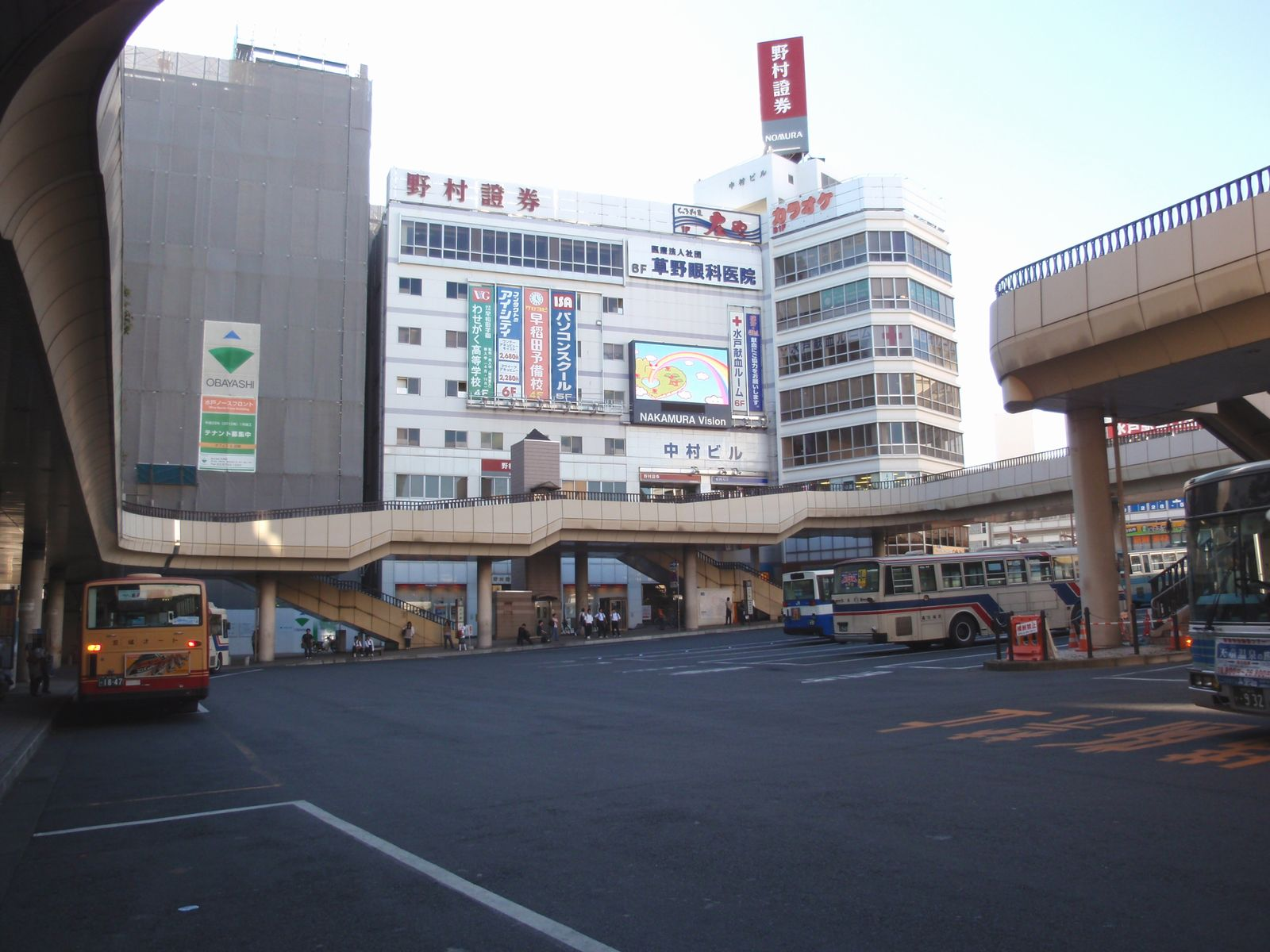 Bus terminal at Mito Sta. north entrance